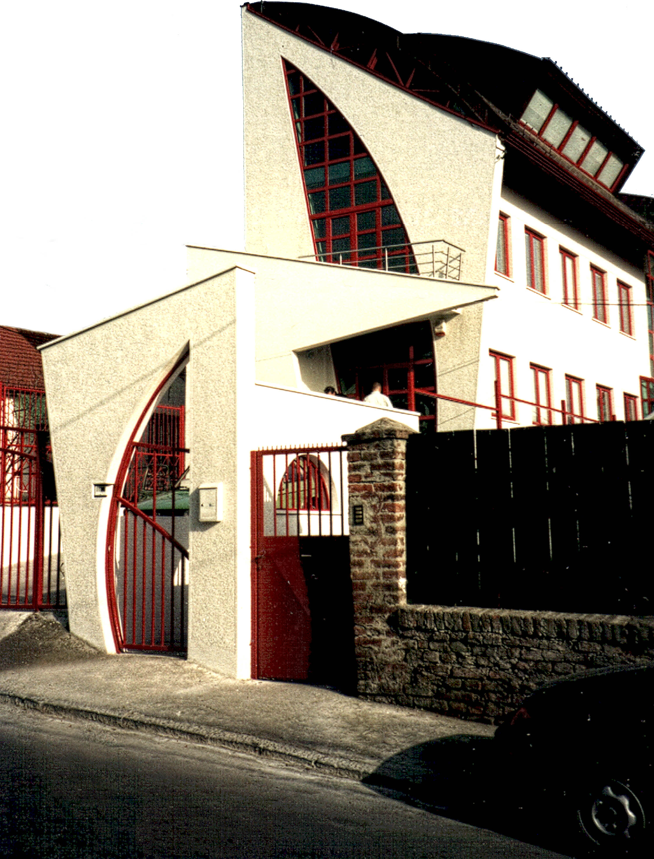 Mihailo Canak - Creative Center Building